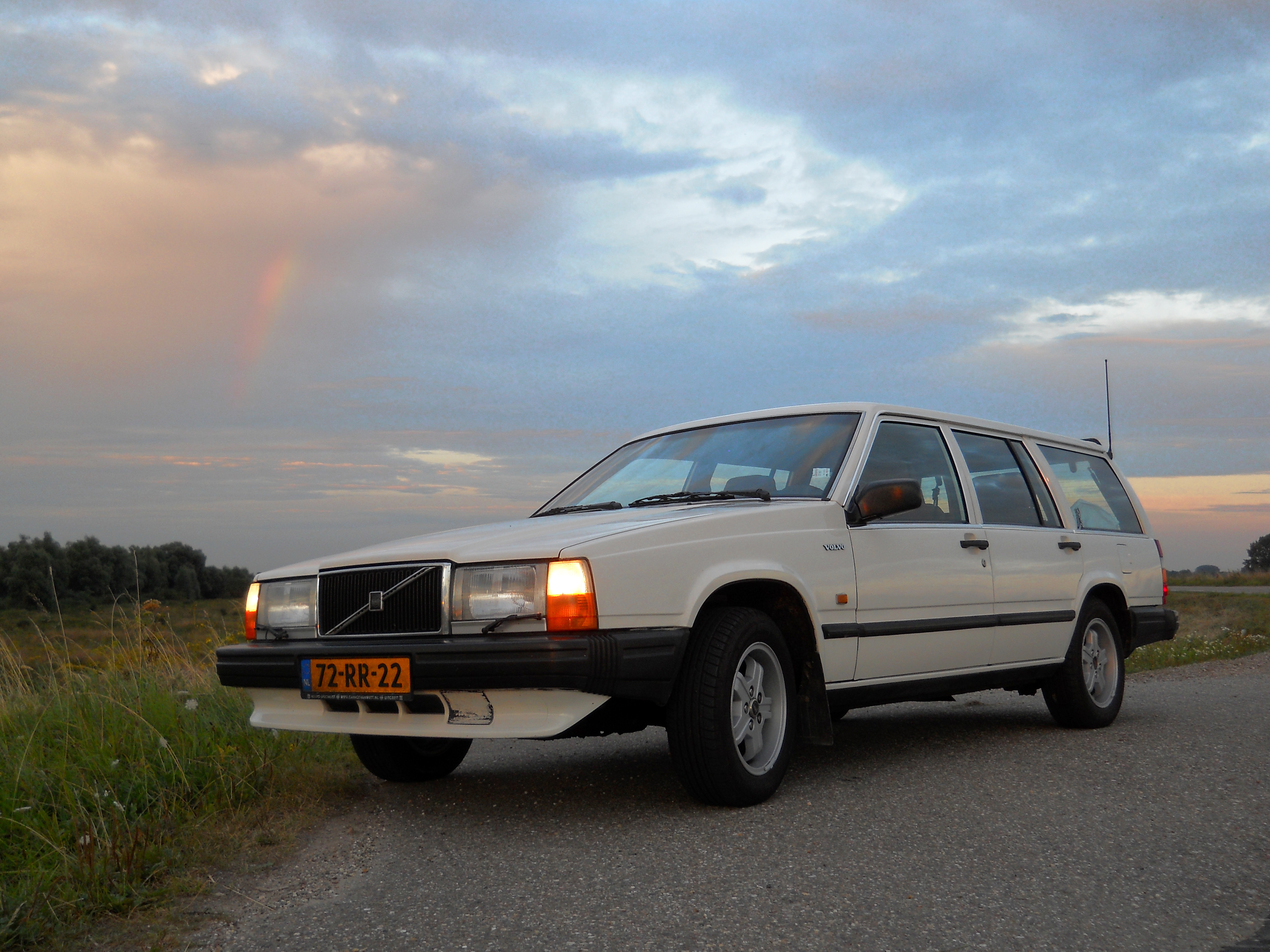 1986 Volvo 740 GL Estate on Virgo rims photographed in 2012